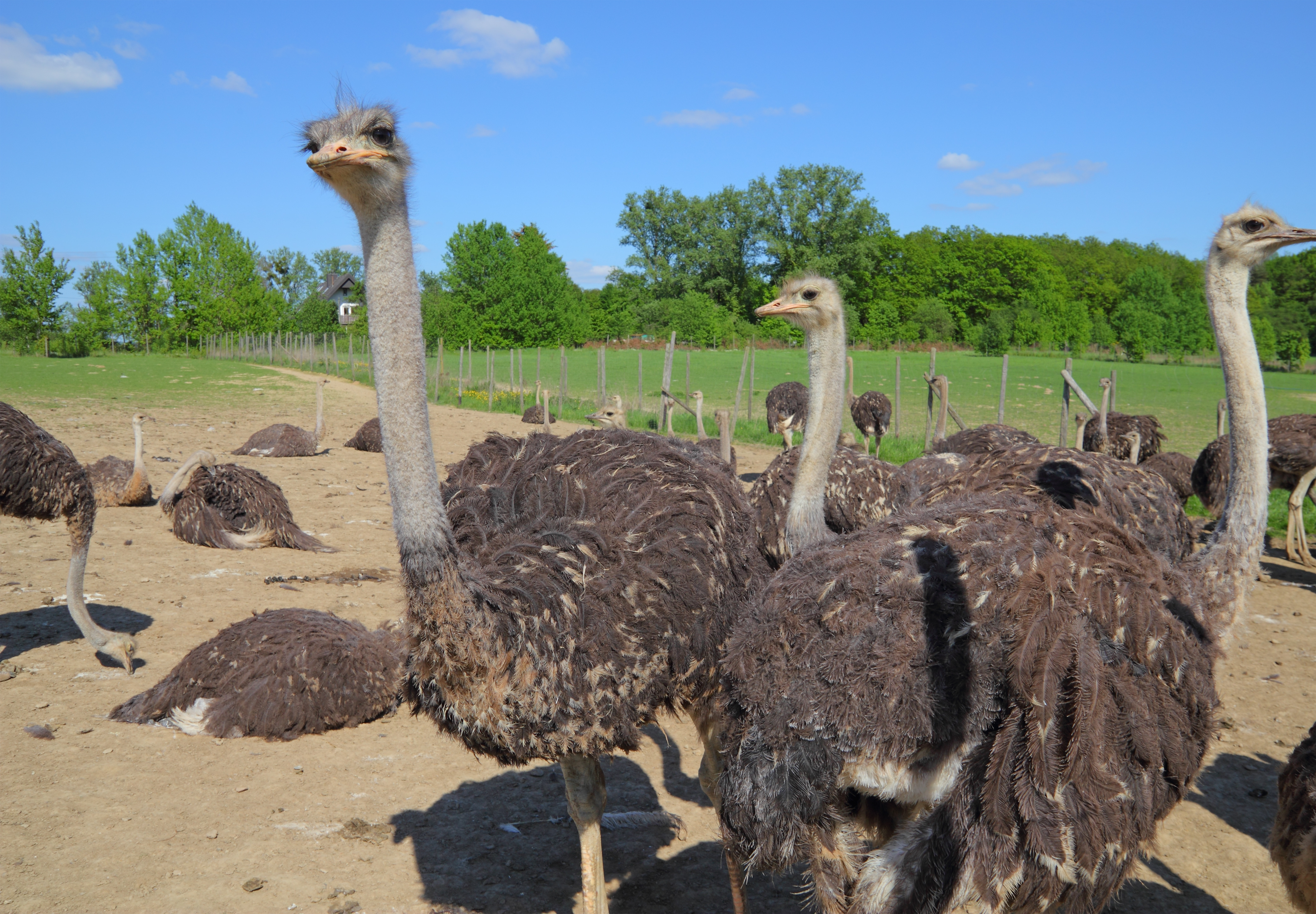 Ostrich farm Gemarkenhof. Remagen, Rhineland-Palatinate, Germany.